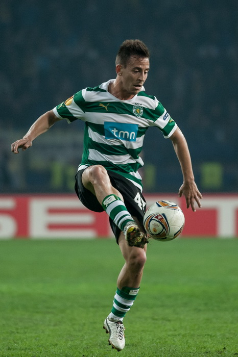 Portuguese football player João Pereira as playing for Sporting Lisbon against Metalist Kharkiv